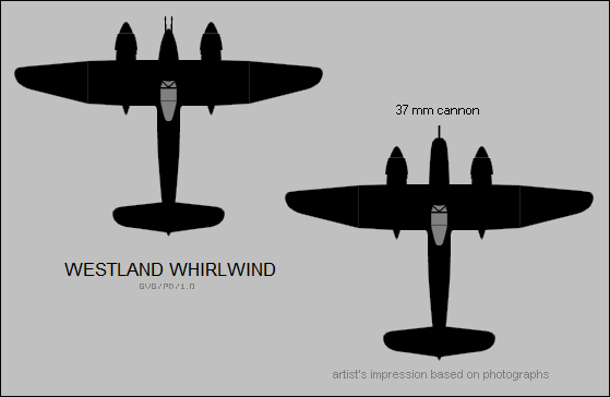 Plan-view silhouettes of the Westland Whirlwind